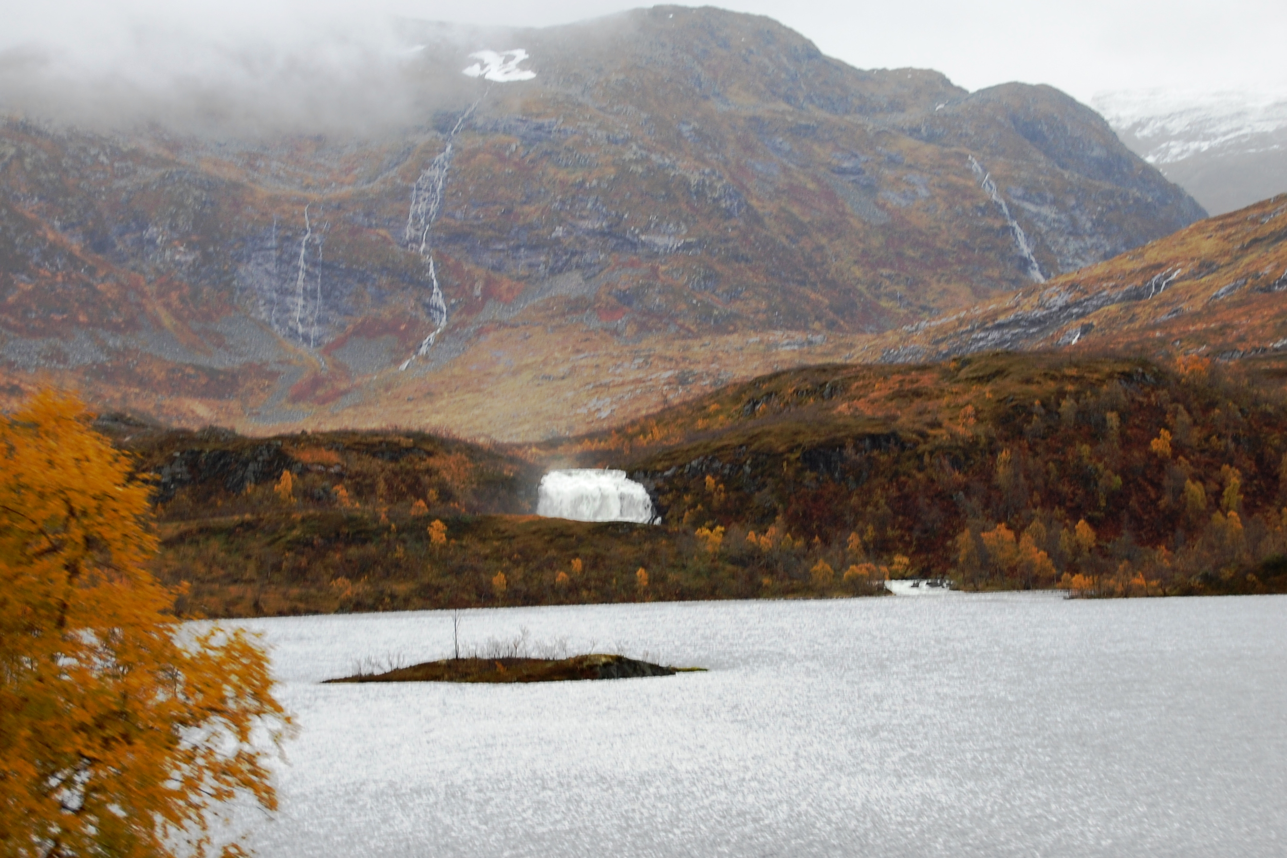 The waterfall Kviteforkledet in Gaular, Sogn og Fjordane, Norway